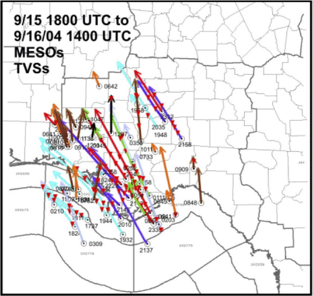 Tracks of the 50 mesocyclones and some of the tornado vortex signatures identified by radar vorticity images between 1800 UTC on September 15 and 1400 UTC on September 16.